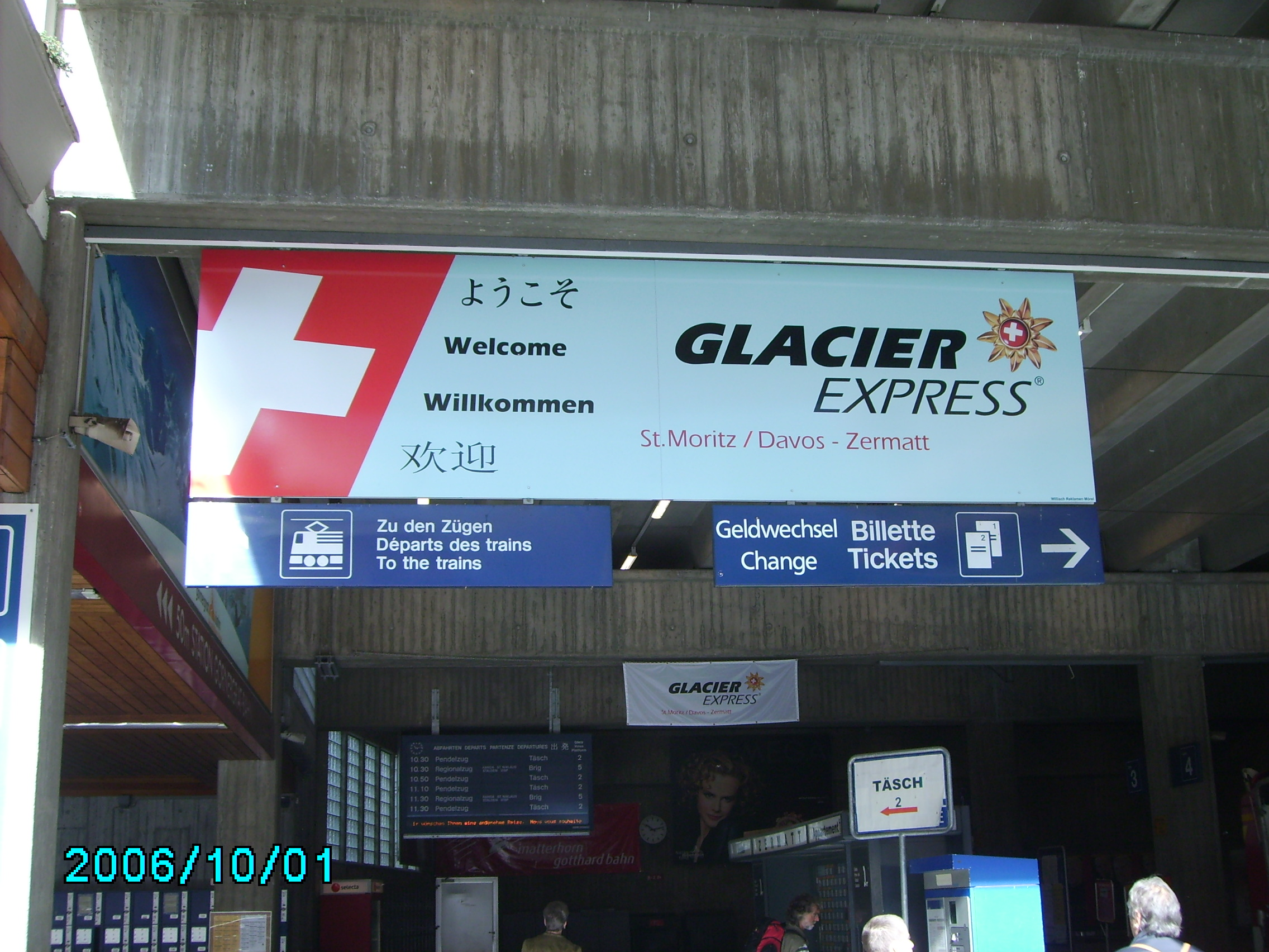 welcome label in the station of Zermatt, Valais, Switzerland